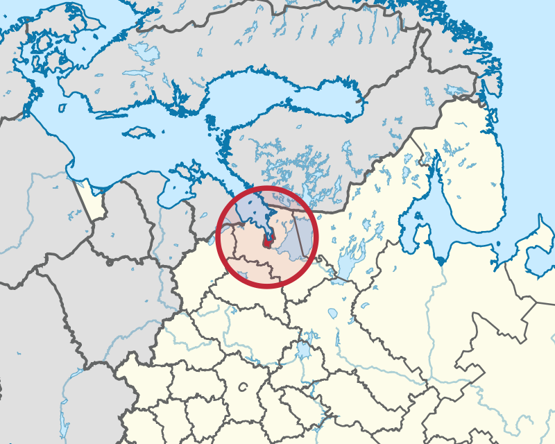 Location of XY (see filename) in Russia